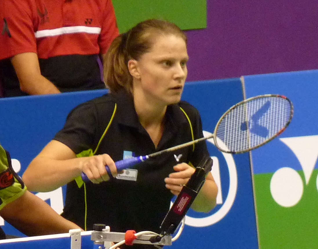 Juliane Schenk (GERMANY)